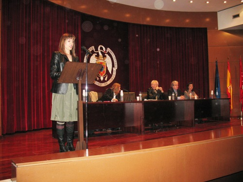 Teresa Gimenez Barbat, spanish writer